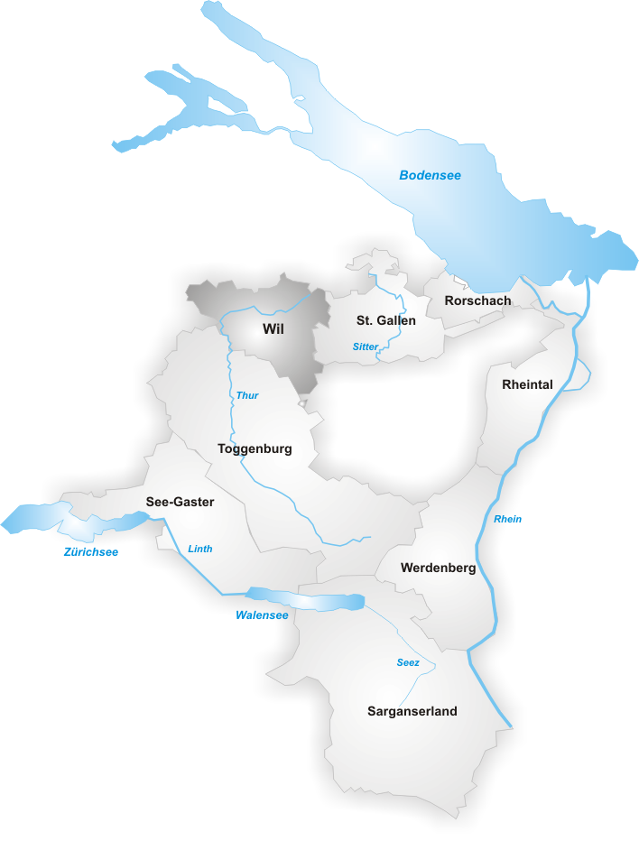 District Wil